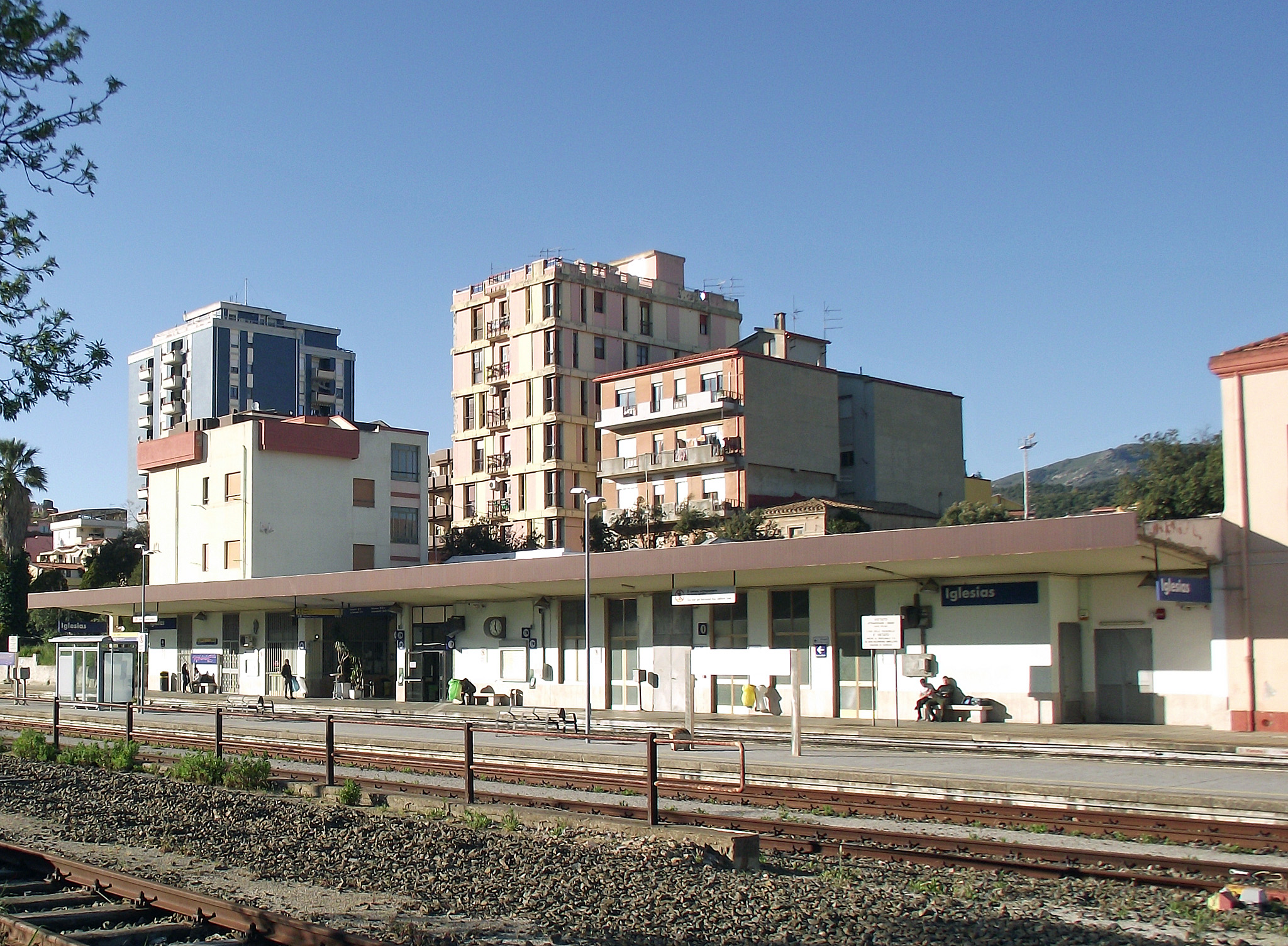 The passenger building of the Iglesias train station, in Sardinia, Italy